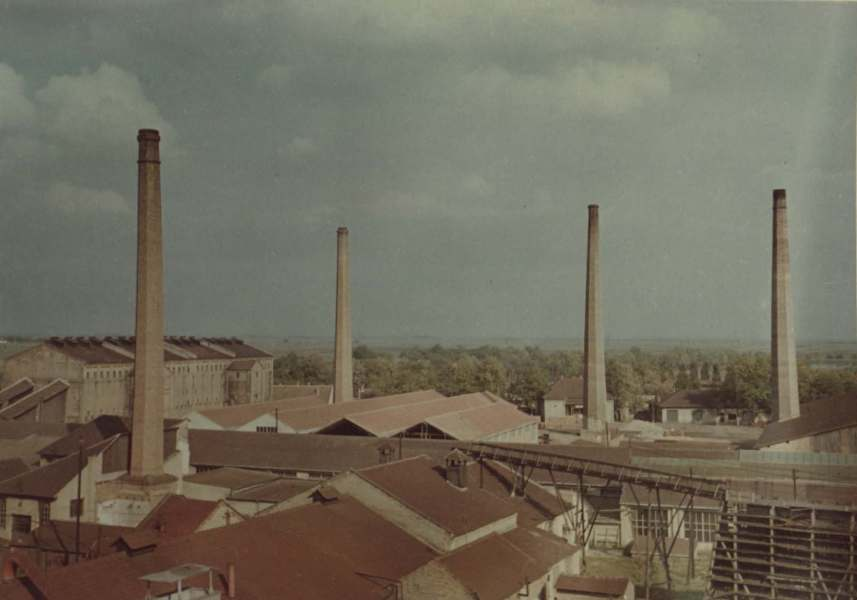 Factory Toza Marković Kikinda Srpski (latinica): Fabrika Toza Marković Kikinda